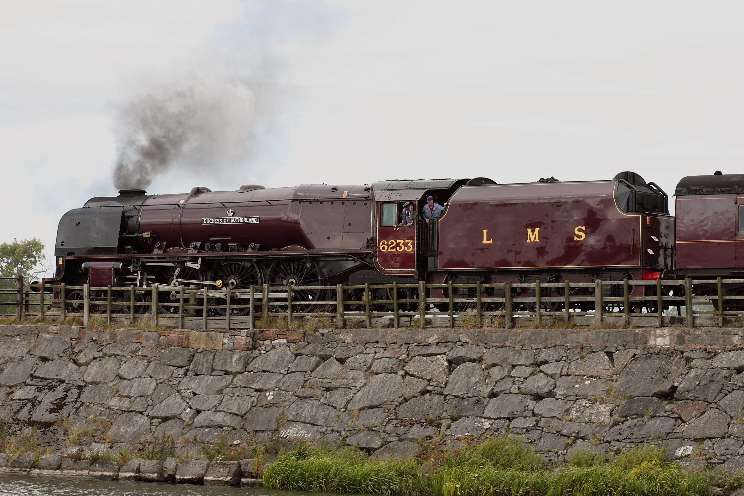 "Lady in red"